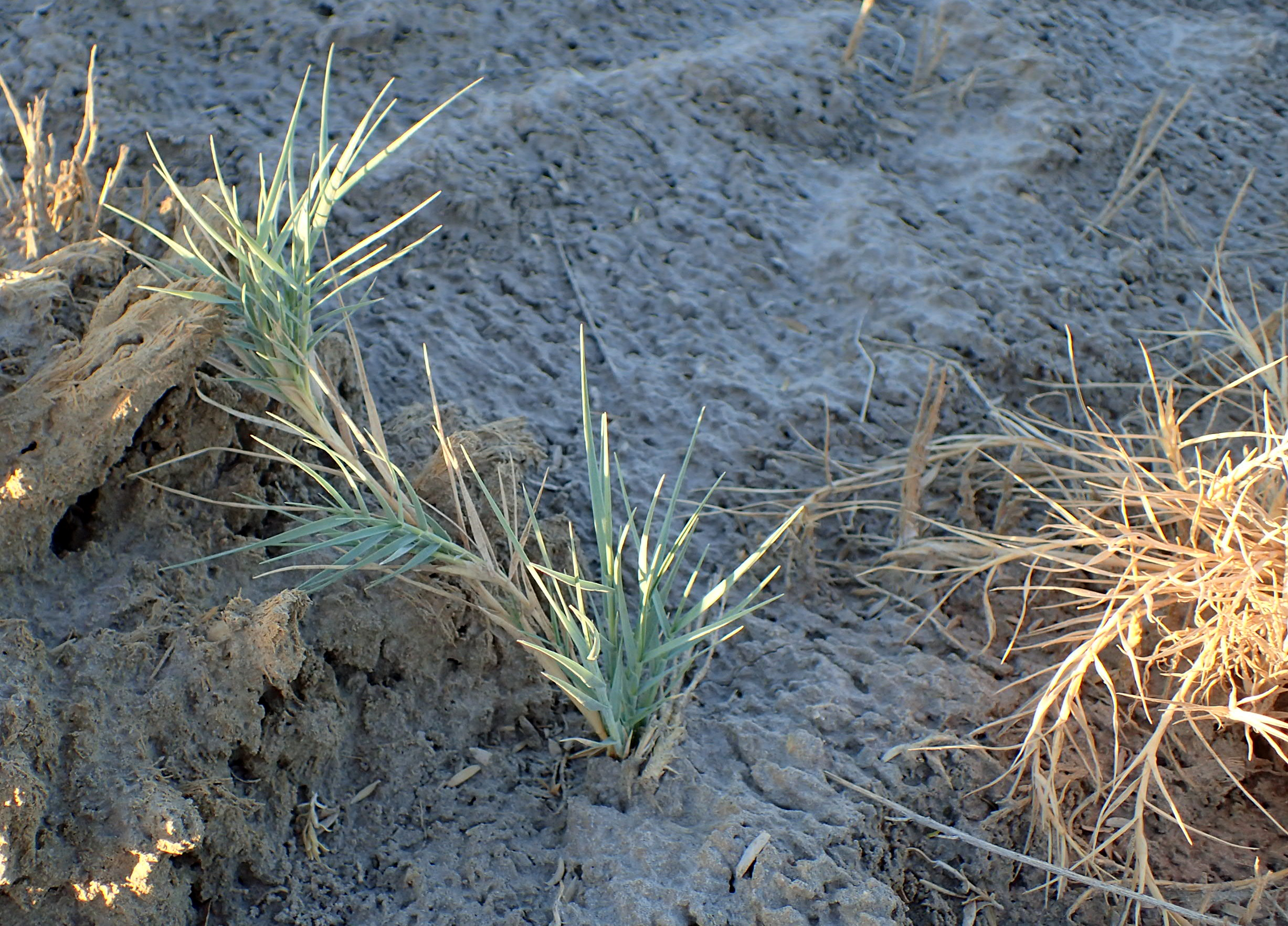 Distichlis spicata; Mesquite Sand Flat Dunes in Death Valley National Park